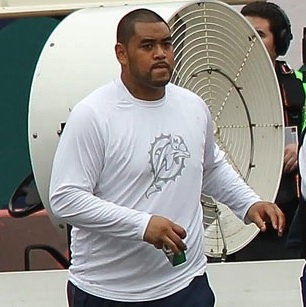 Miami Dolphins offensive guard Ray Feinga during a 2012 game vs the Oakland Raiders